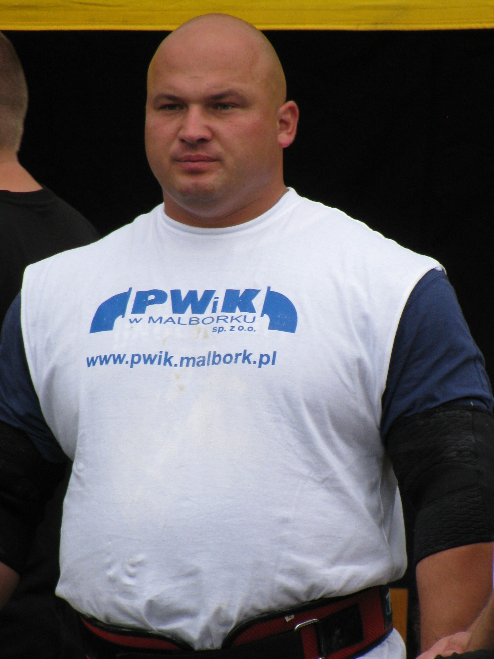 Gabriel Kowalski - a strength athlete from Poland